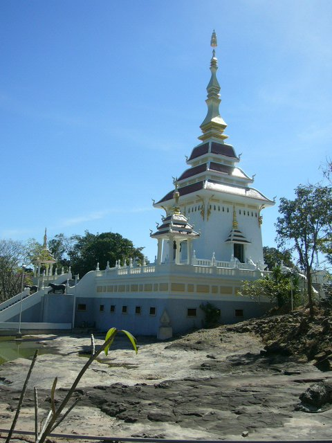 Wat Tham Kham east of Sakon Nakhon, Sakon Nakhon province, Northeastern Thailand.